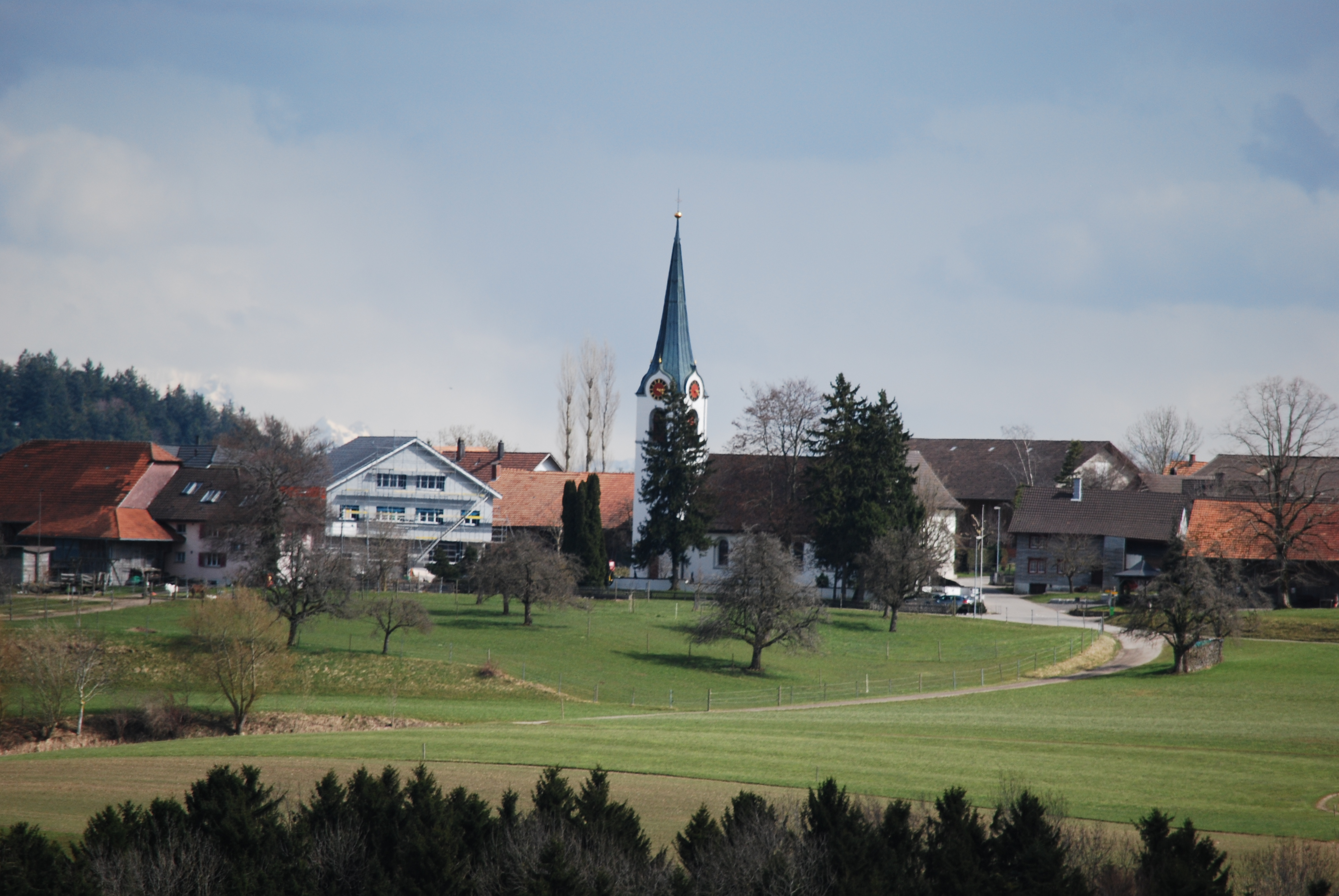 Welfensberg, municipality of Wuppenau, canton of Thurgovia, Switzerland